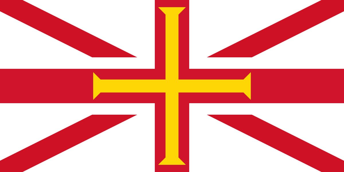 The Channel Islands flag proposed by User:Yes0song